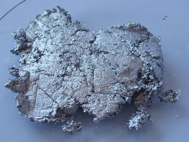 Aluminium pigment paste